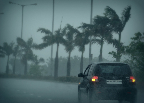 Rain in navi mumbai